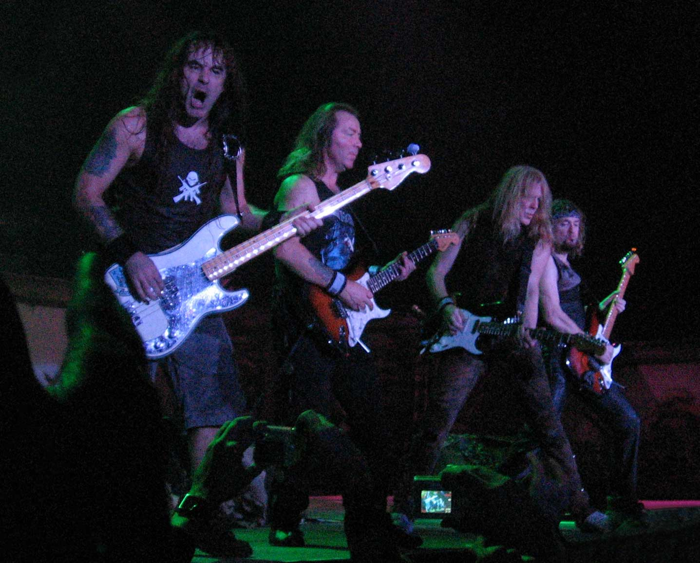 Steve Harris, Dave Murray, Janick Gers and Adrian Smith during an Iron Maiden show in Barcelona (A Matter of Life and Death World Tour).